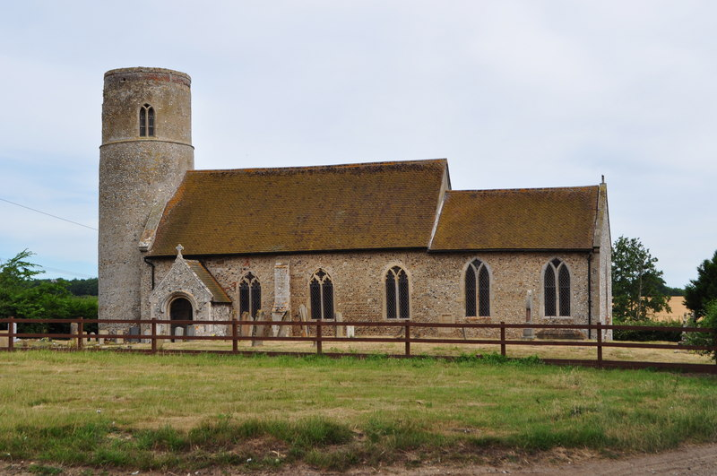 All Saints Church-Threxton, near to Threxton Hill, Norfolk, Great Britain. A view of the church, which is open. However I was just passing and din't go inside. It is surposed to have good wall paintings and medieval glass.